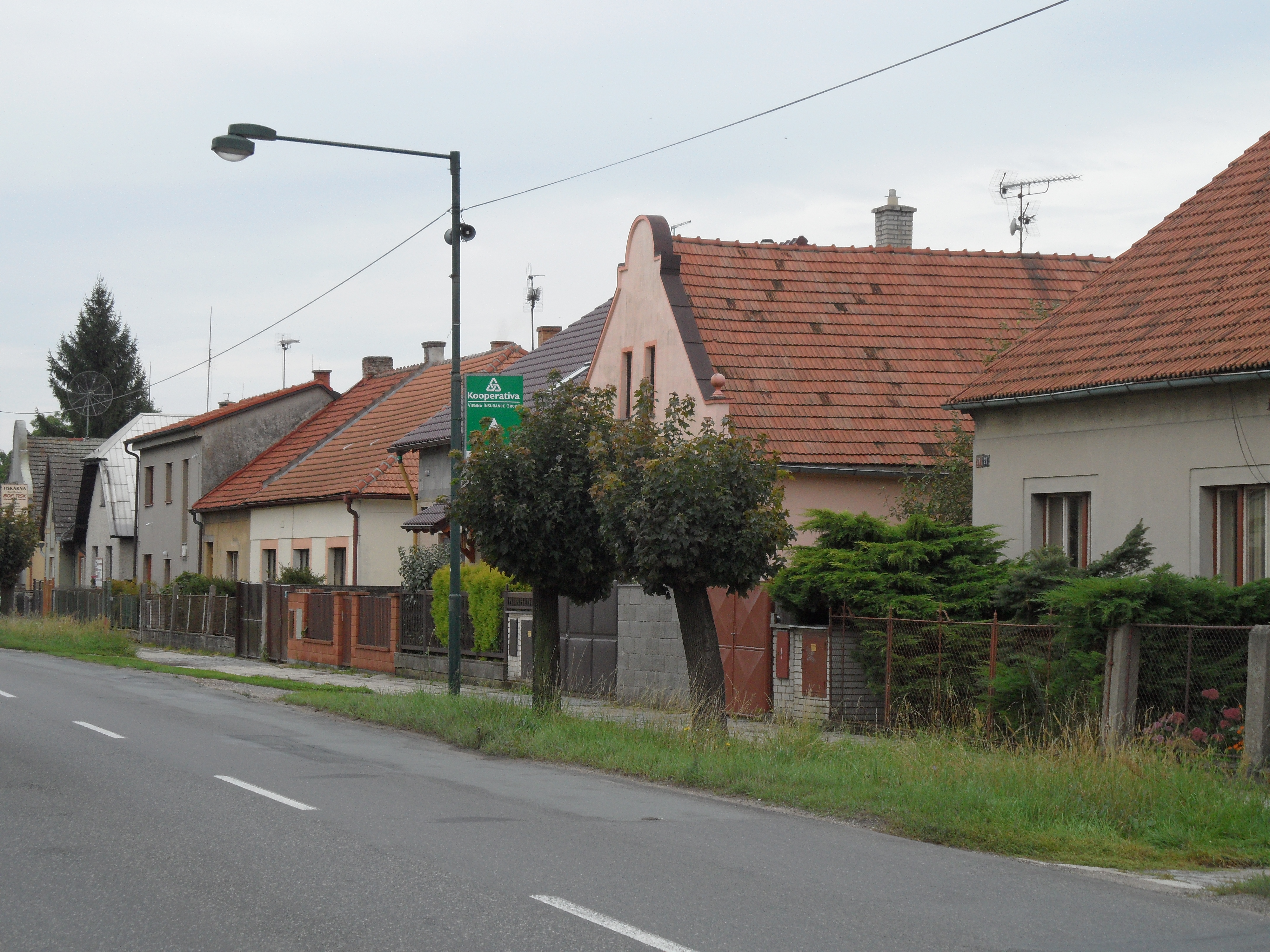 Drahelice C. Houses along Road II/331 (Drahelická Street), Nymburk District, the Czech Republic.